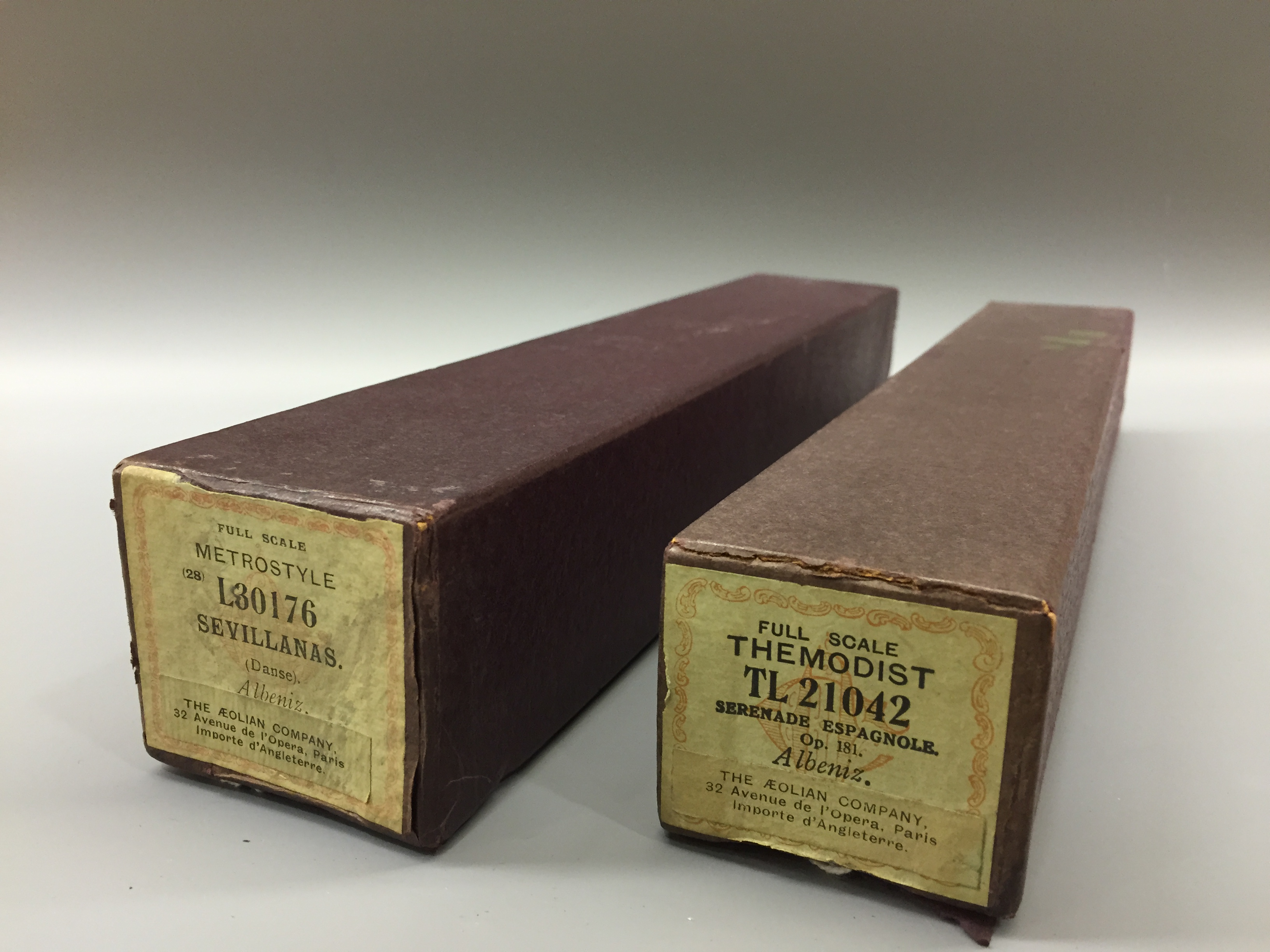 Two piano rolls with Isaac Albéniz's pieces, Aeolian Company: Metrostyle and Themodist